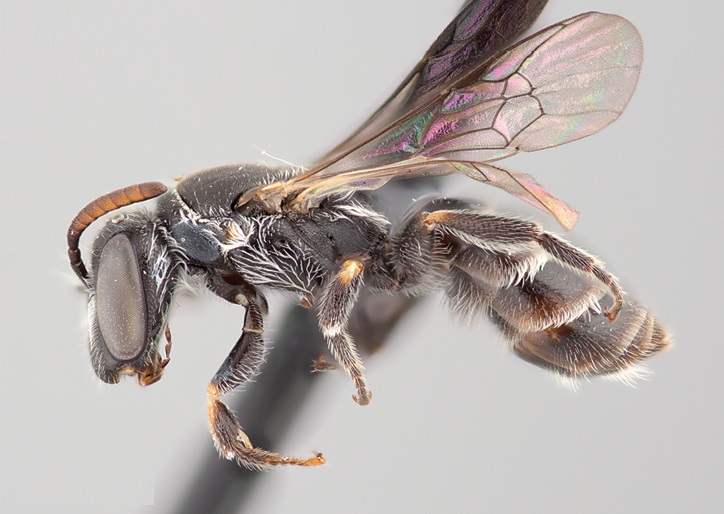 Female of Chilicola mantagua